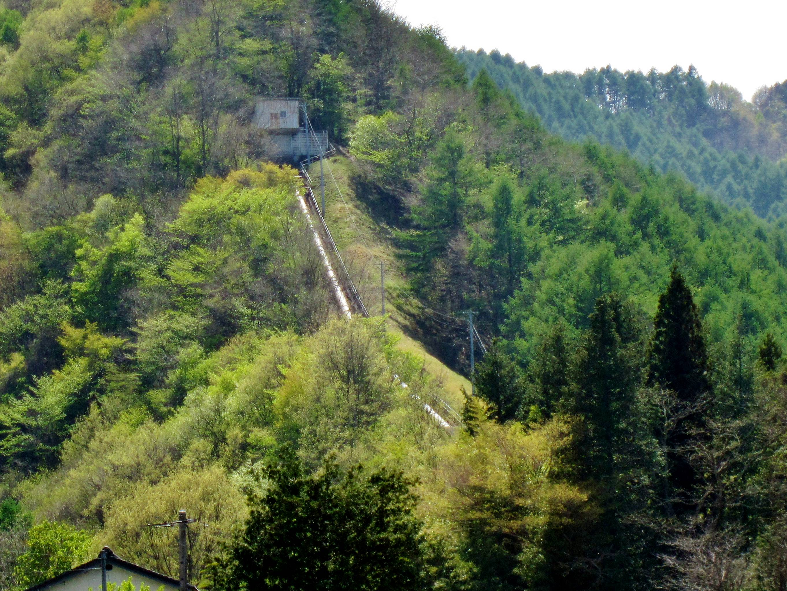 Karasawa hydroelectric power station penstock.